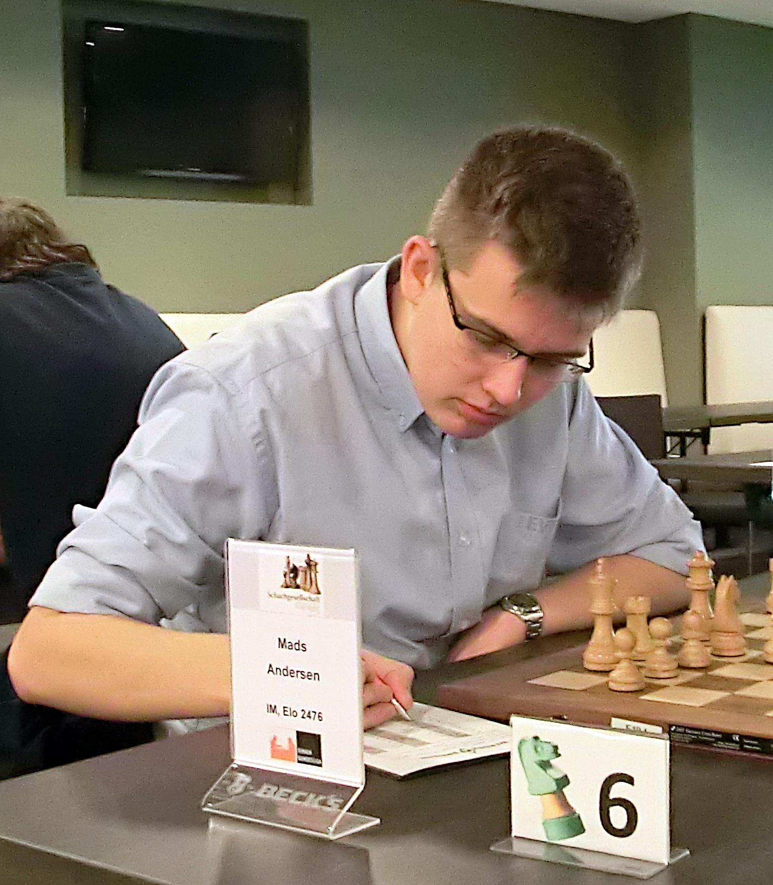 Mads Andersen, chess player from Denmark